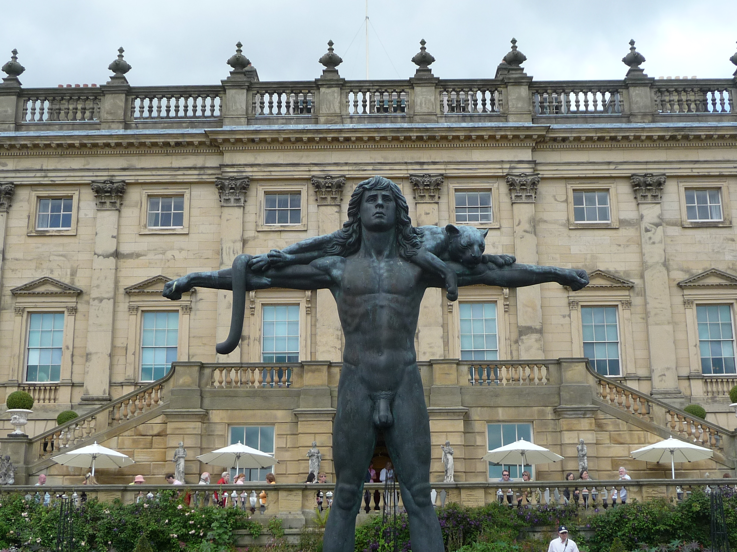 Gardens of Harewood House in Harewood, West Yorkshire, United Kingdom